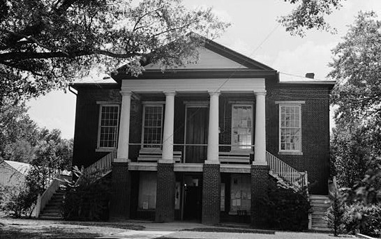 Camden County Courthouse, NC Route 343, Camden (Camden County, North Carolina).